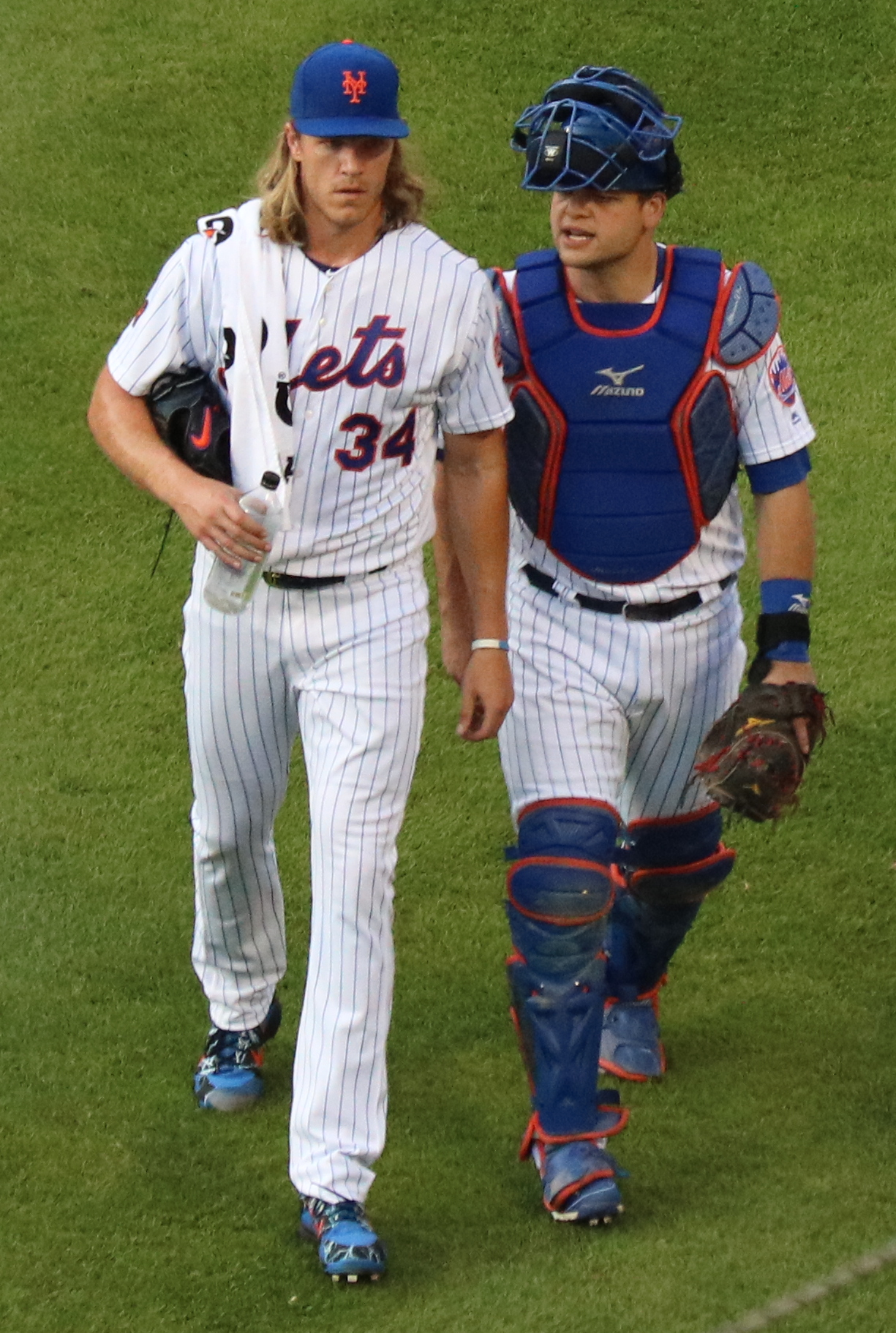 Noah Syndergaard and Devin Mesoraco on July 13, 2018